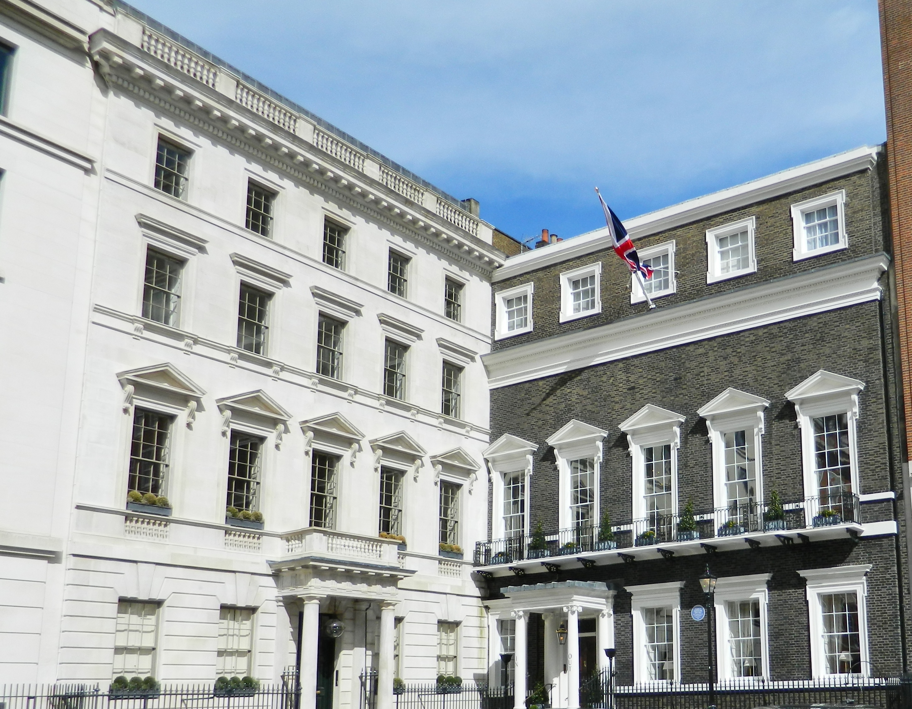 Former Libyan People's Bureau, 5, St James's Square, London. From here WPC Yvonne Fletcher was shot on 17 April 1984